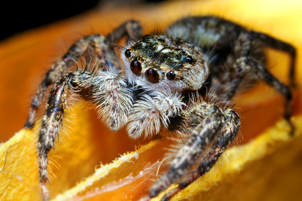 A female Platycryptus undatus in Oklahoma.